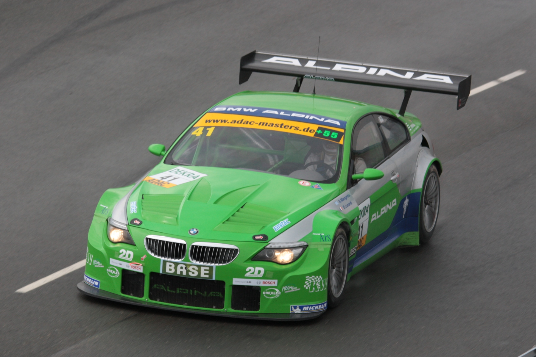 Alexandros Margaritis driving his Alpina B6 GT3 into the pitlain of the Sachsenring at the second ADAC GT Masters race 2011.